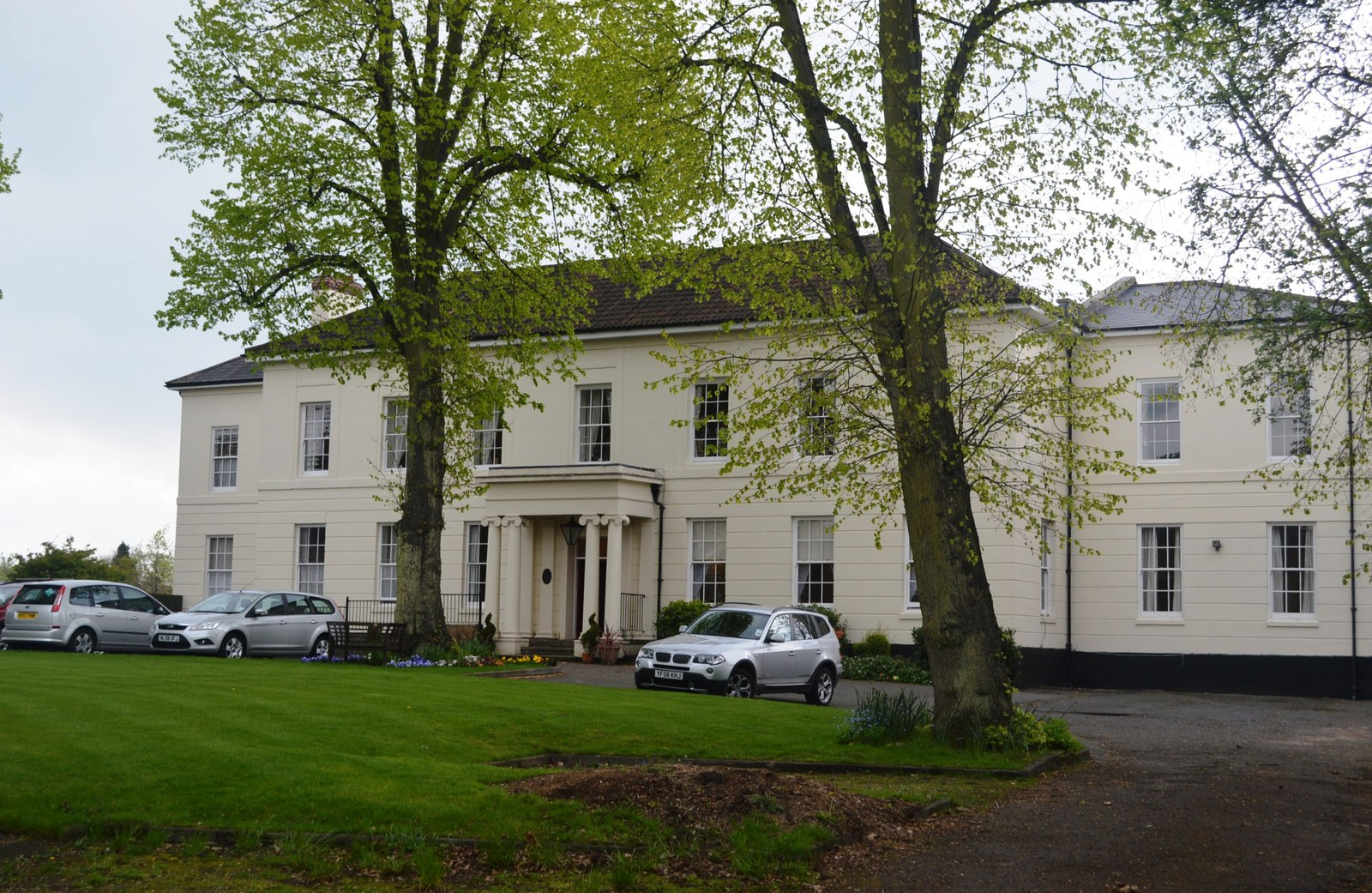 The Shrubbery - Birmingham Road, Kidderminster